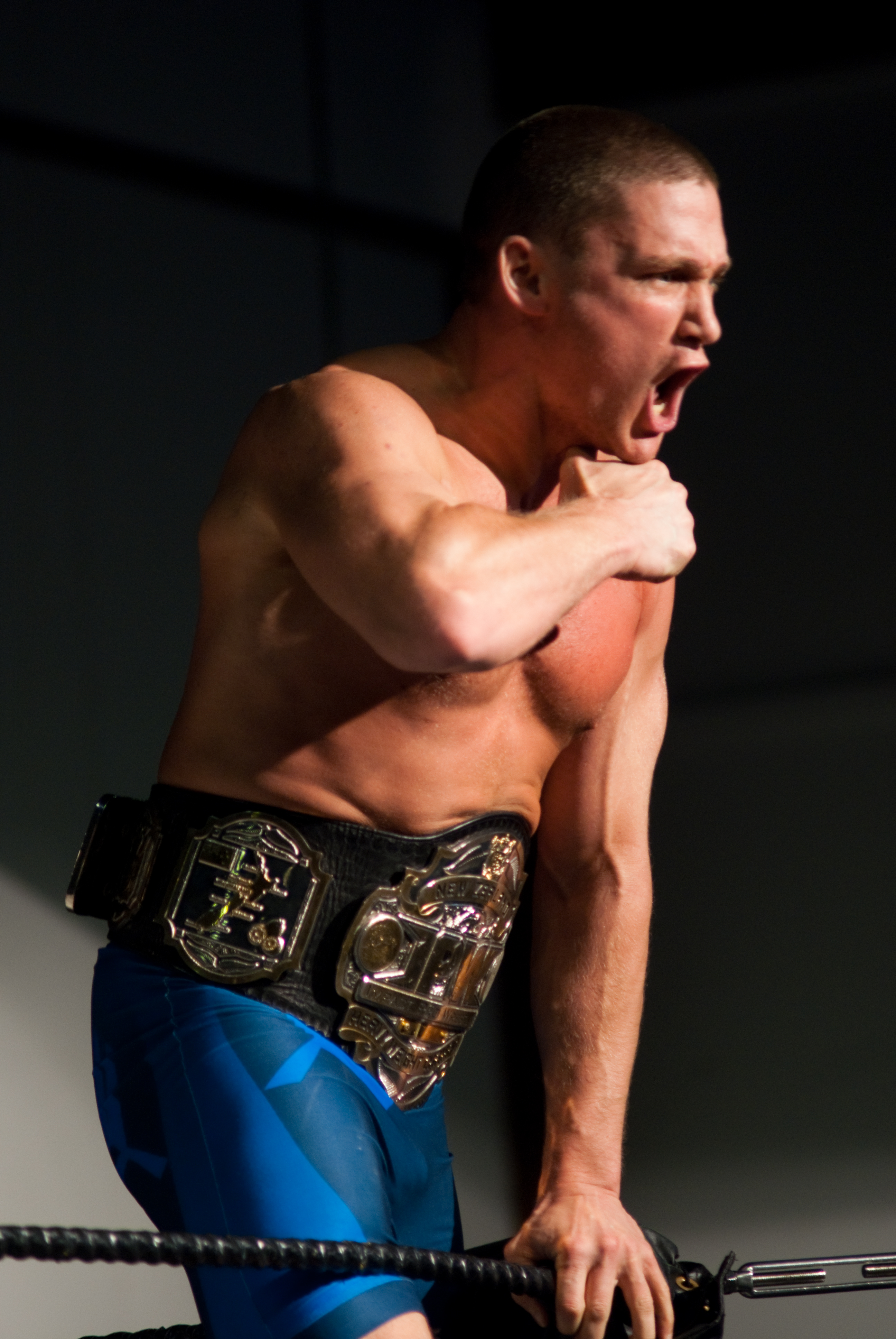 IPW wrestling in Armageddon Expo 2009. Location: ASB Showgrounds, Auckland, NZ